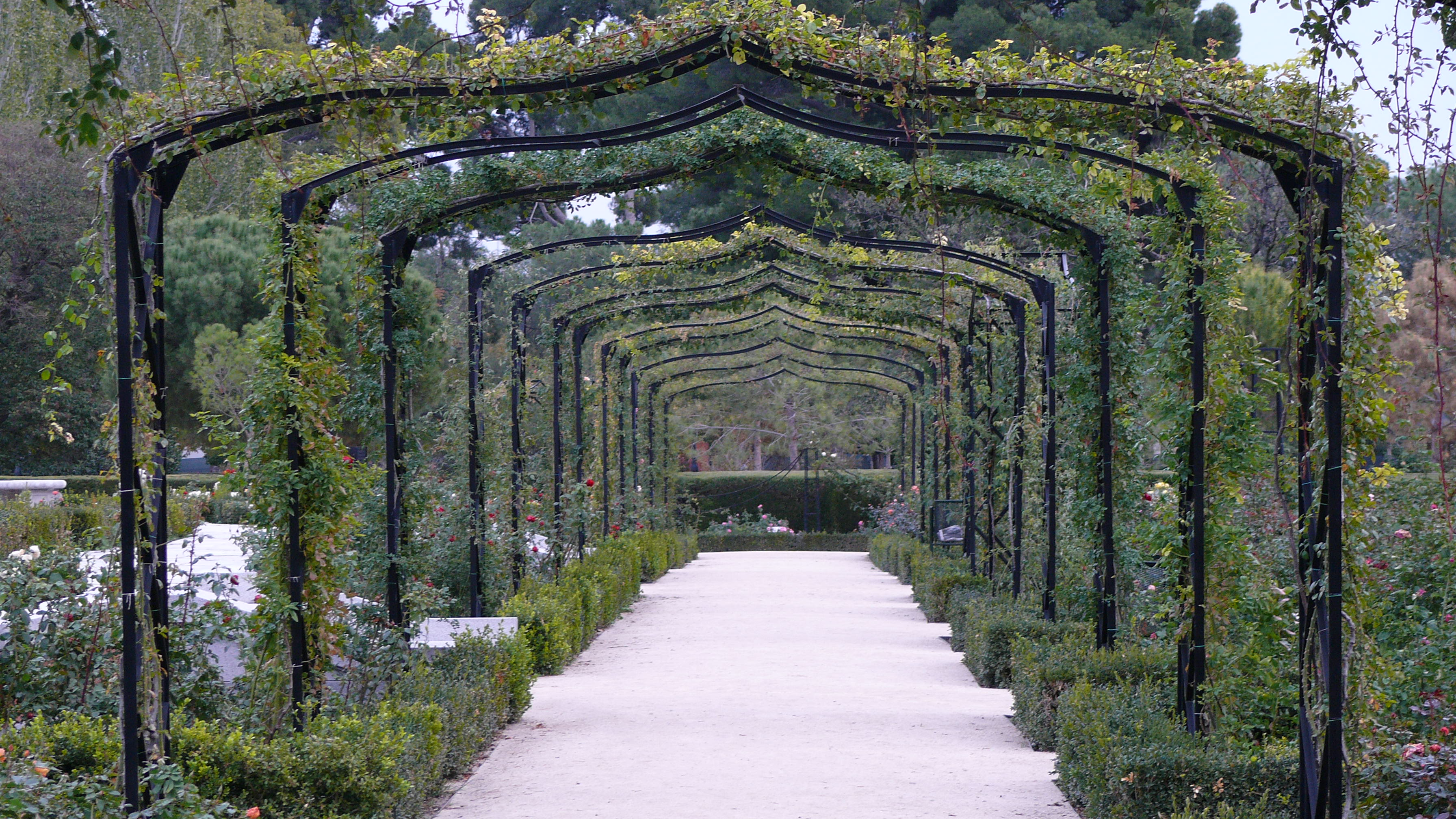 The Rose Garden of Retiro Park in Madrid (Spain).